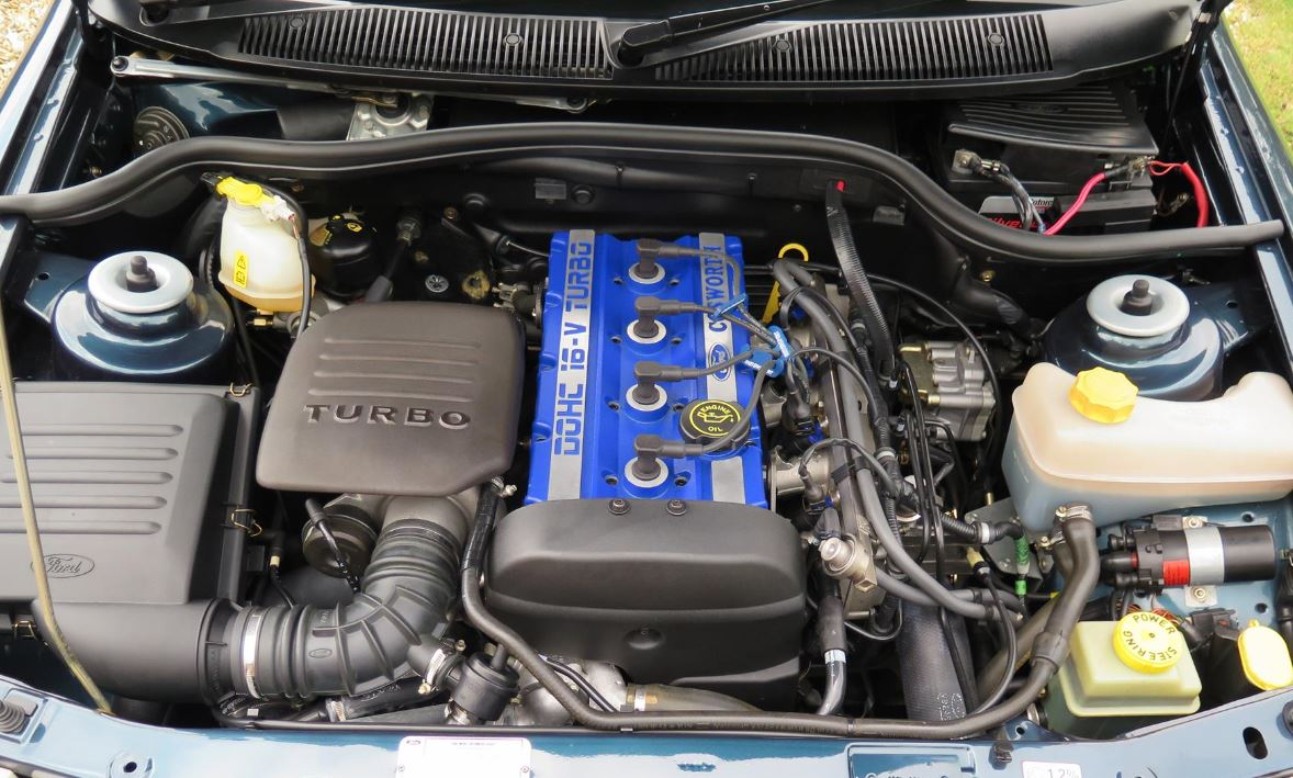 Large Turbo t34 Escort Cosworth YBT 2.0 litre